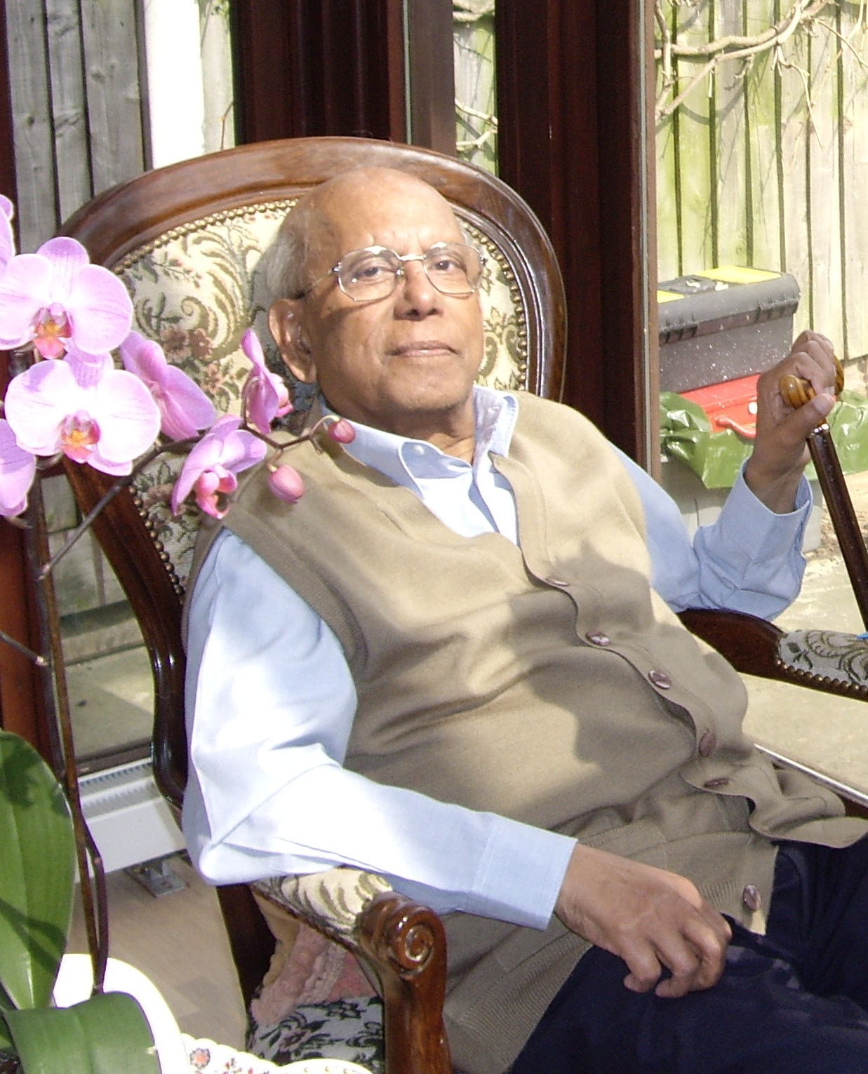 Abul Fateh at his son's home in Finchley Church End, London